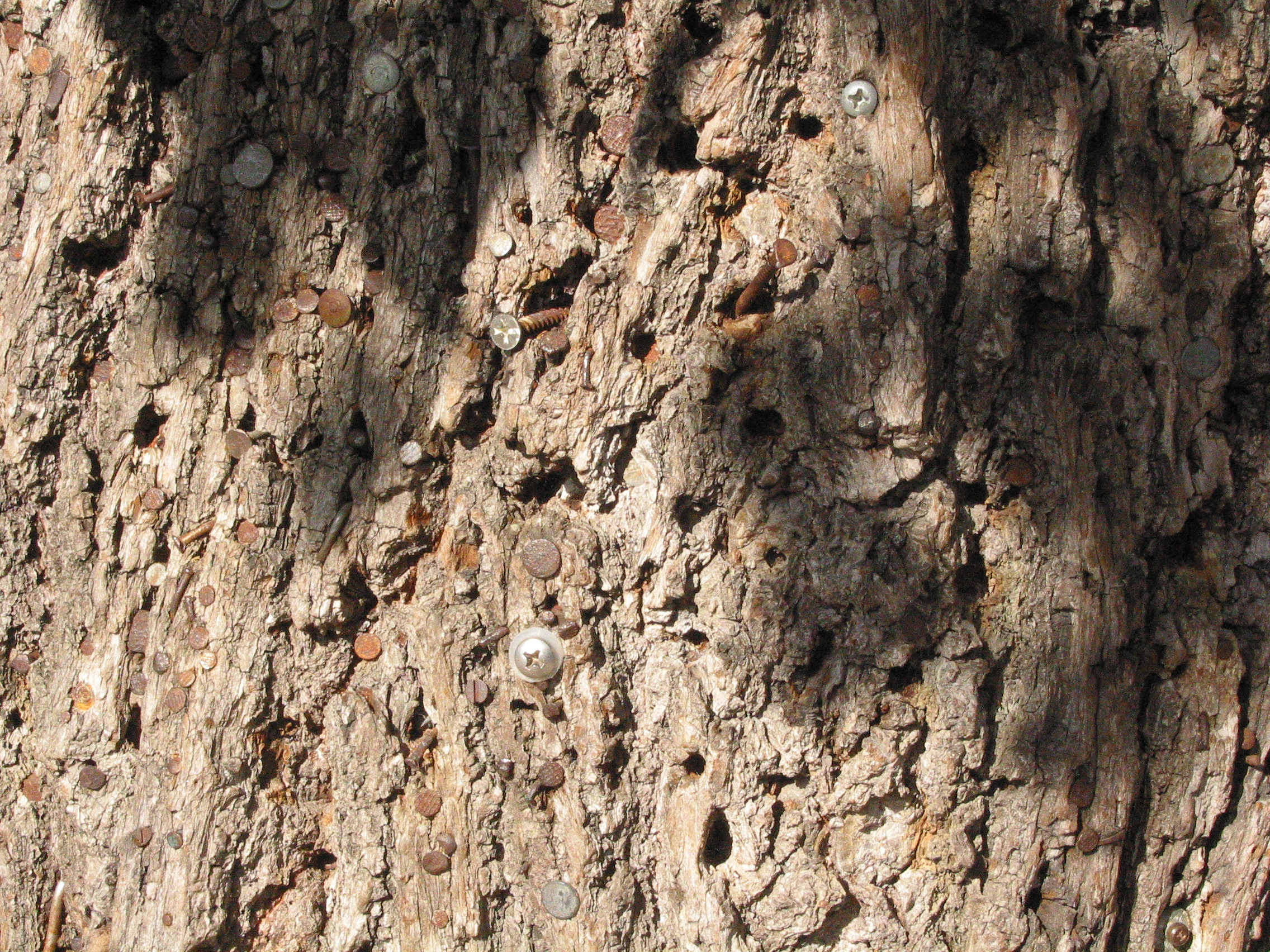 The fetich tree of Han-sur-Lesse covered of nails - Common Lime (Tilia × europaea L.).